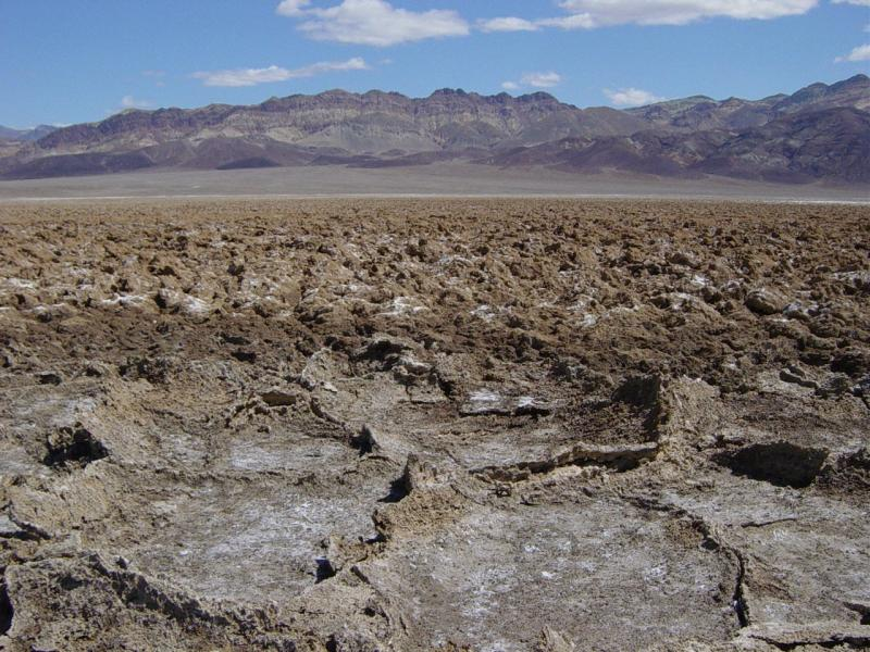 Devils Golf Course near Salt Creek